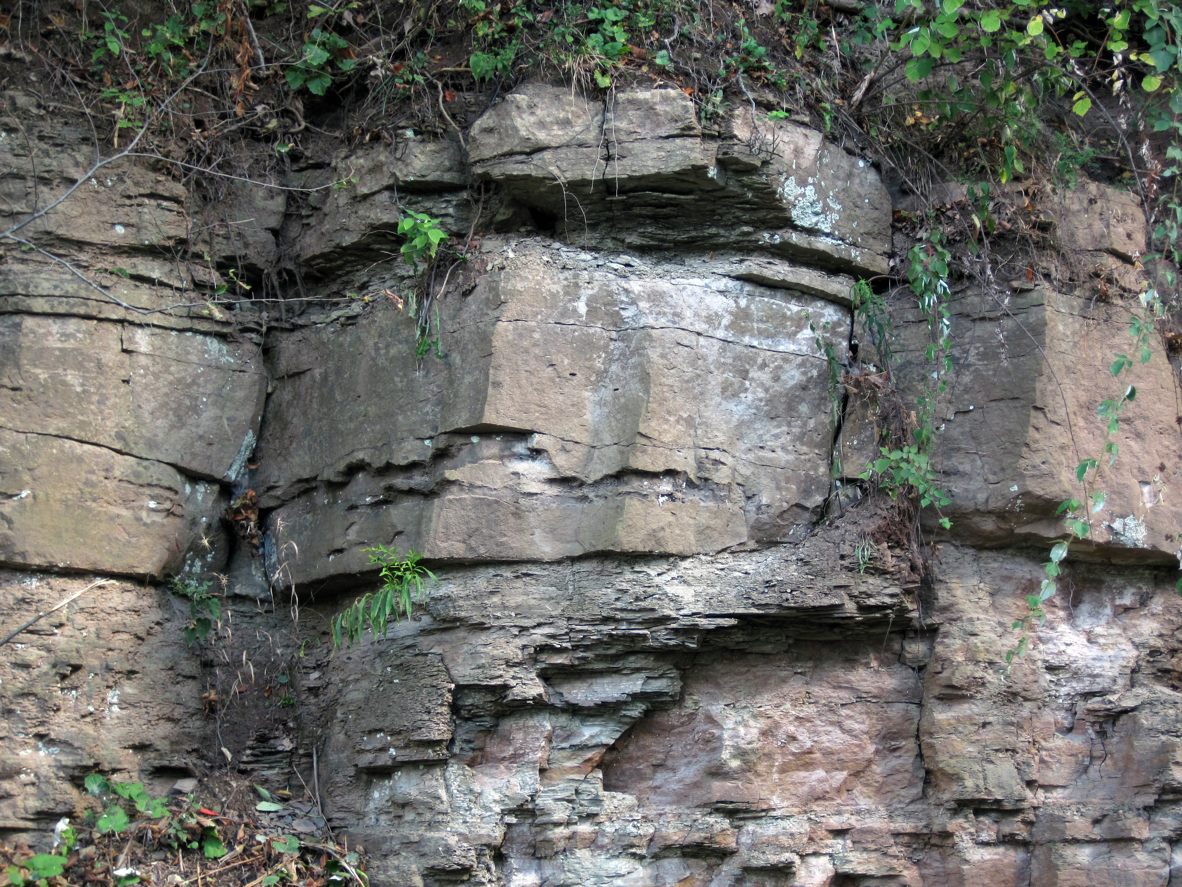 Sandstone in the Permian of Ohio, USA. The Upper Pennsylvanian to Lower Permian Dunkard Group of Ohio contains the youngest bedrock in the entire state. The unit consists of two stratigraphic formations: the Washington Formation (below) and the Greene Formation (above). This is a cyclothemic, nonmarine succession principally composed of shales, sandstones, lacustrine limestones, and thin coal beds. This photo shows a sandstone interval in the Greene Formation. It occurs about 5 to 6 feet above the Nineveh Limestone. The massive-weathering unit is a calcareous, micaceous, quartzose sandstone about 6 feet thick. Below it is about 5.5 feet of thin-bedded siltstones and argillaceous sandstones. Stratigraphy: sandstone interval at top of unit GR16 of Cross et al. (1950), Greene Formation, upper Dunkard Group, Lower Permian Locality: Clark Hill section - roadcut on the southeastern side of Long Ridge Road, south of Oppossum Creek, south-southeast of the town of Clarington, southeastern Alum Township, eastern Monroe County, eastern Ohio, USA (GPS: 39° 43.676’ North latitude, 80° 51.018’ West longitude) Reference cited: Cross et al. (1950) - Field guide for the special field conference on the stratigraphy, sedimentation and nomenclature of the Upper Pennsylvanian and Lower Permian strata (Monongahela, Washington and Greene Series) in the northern portion of the Dunkard Basin of Ohio, West Virginia and Pennsylvania. 107 pp.